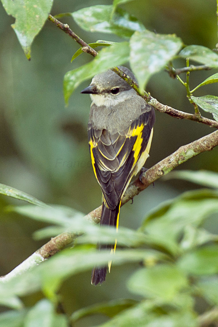 Rosy Minivet fem - Thailand_H8O5715